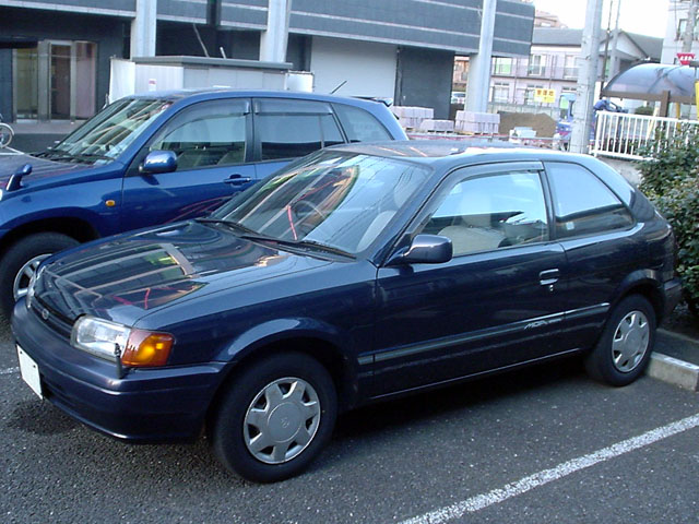 1995 Toyota Corsa 1300 "Moa Special"(final model) photo by me. taken in Japan.